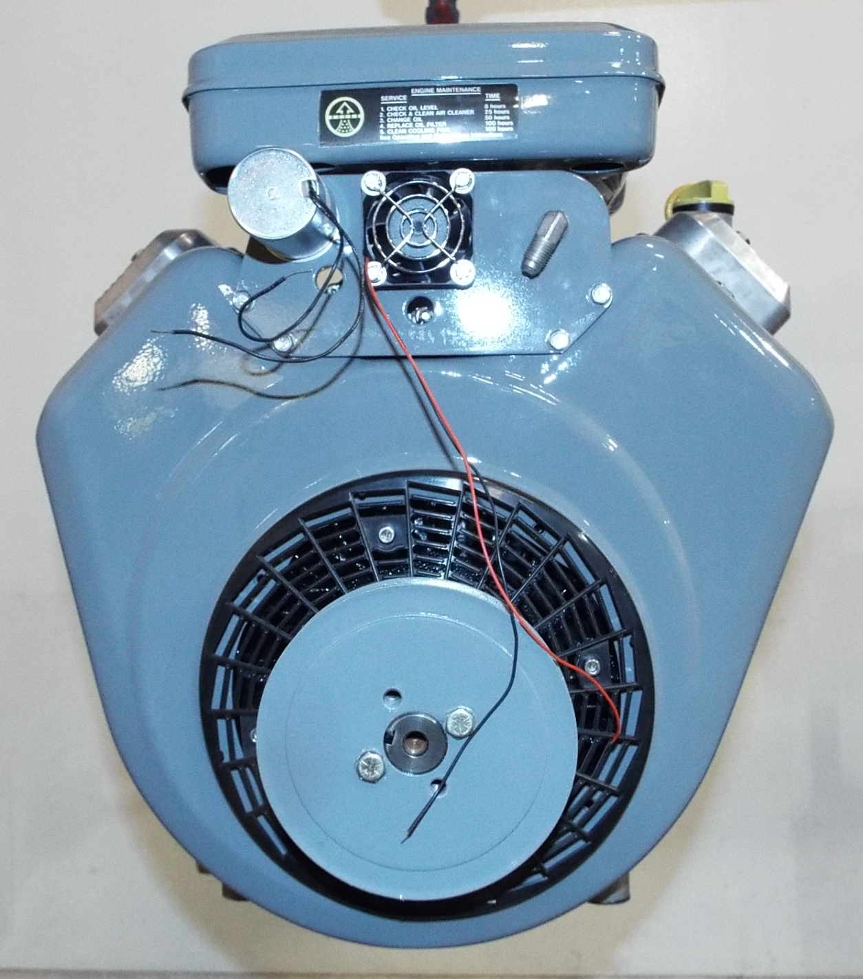 An accessory-end image of a Briggs & Stratton industrial 90 degree V-twin gasoline engine.